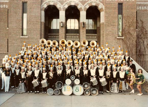 The NDSU GSMB in the 80s